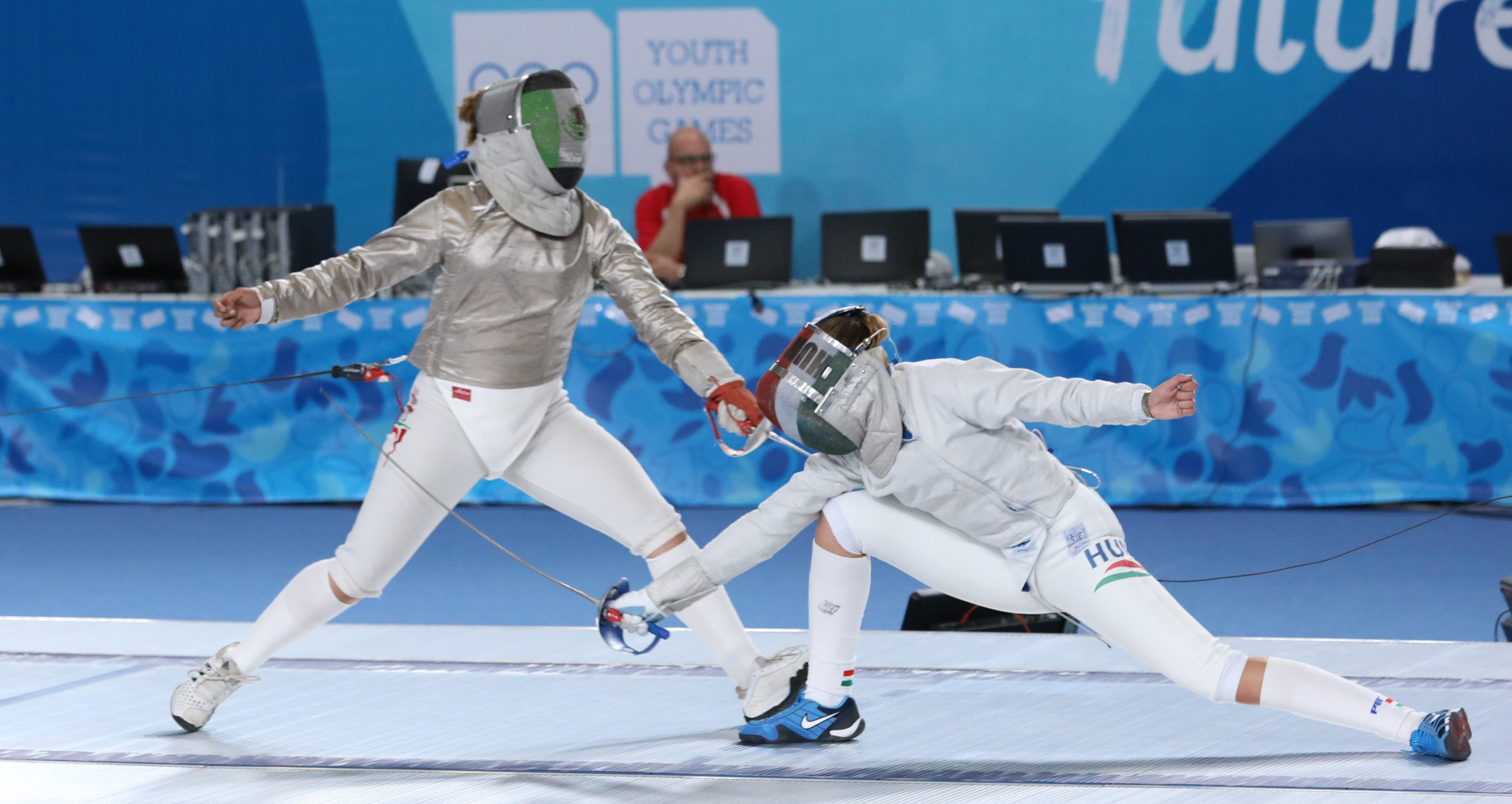 Girls' sabre, Gold medal match/Final: Natalia Botello vs. Liza Pusztai (9–15)